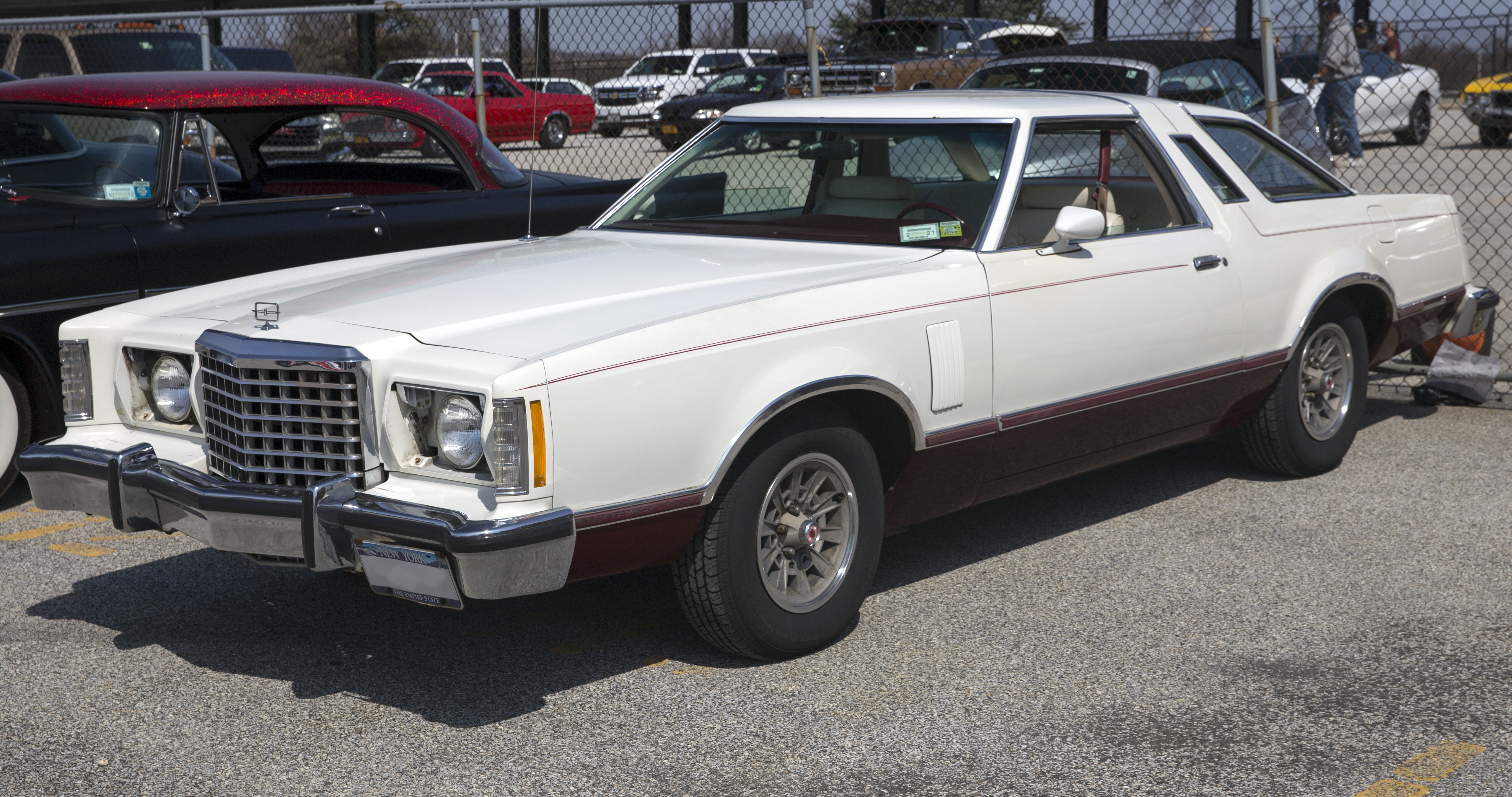 A 1977 Ford Thunderbird at the Belmont Race Track. Built in Chicago, 351 2-barrel V8.